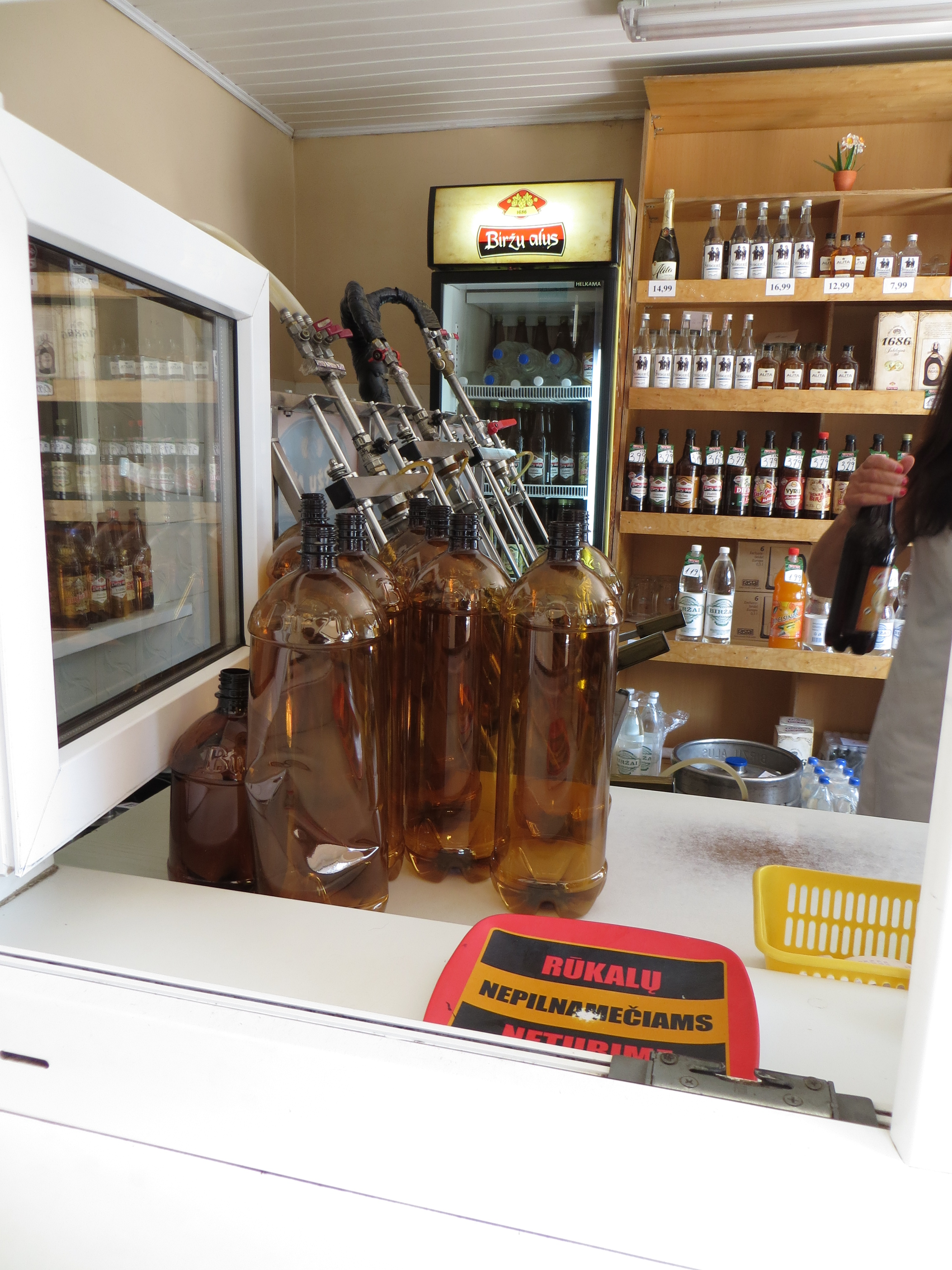 View through the window at the sales booth near the entrance to Biržų Alus in Biržai, Lithuania, where large plastic growlers are filled with fresh beer straight from the brewery tanks.